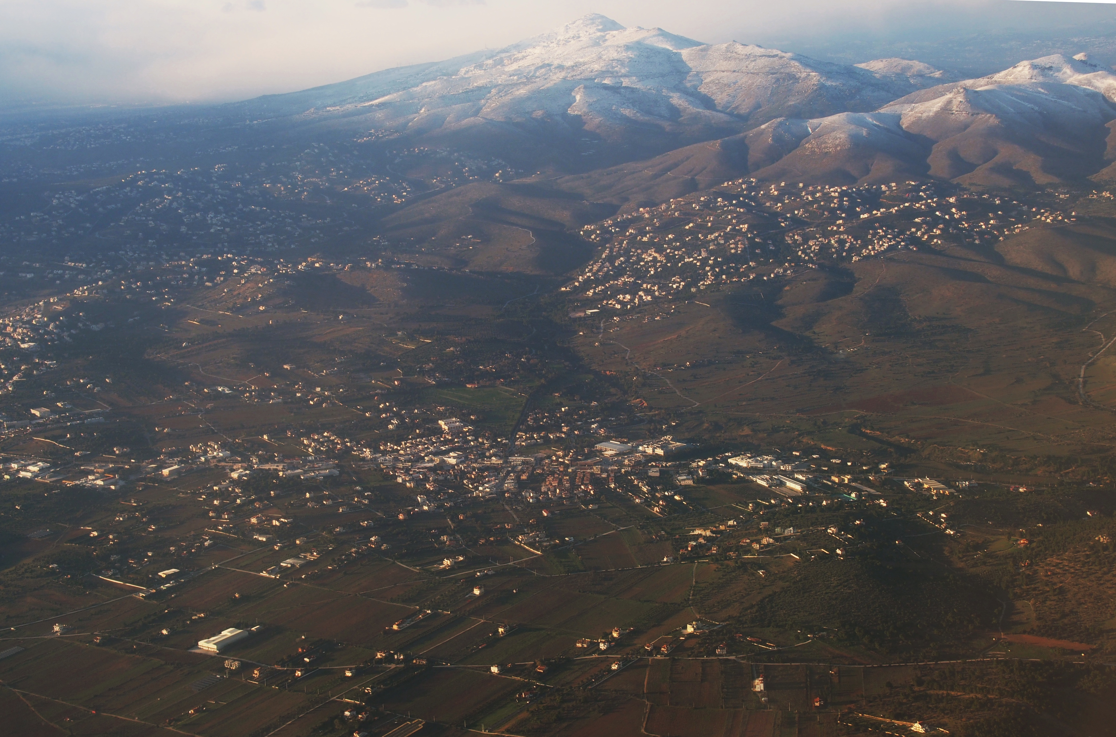 Airview of Pikermi at winter. Dioni is seen up left and Drafi up right, under the shadow of a cloud.